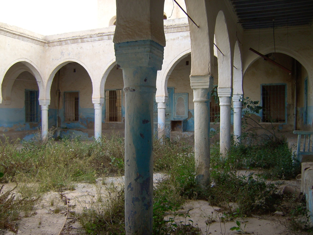 The dilapidated courtyard of the Dighet yeshiva in Er Riadh on the island of Djerba, Tunisia.